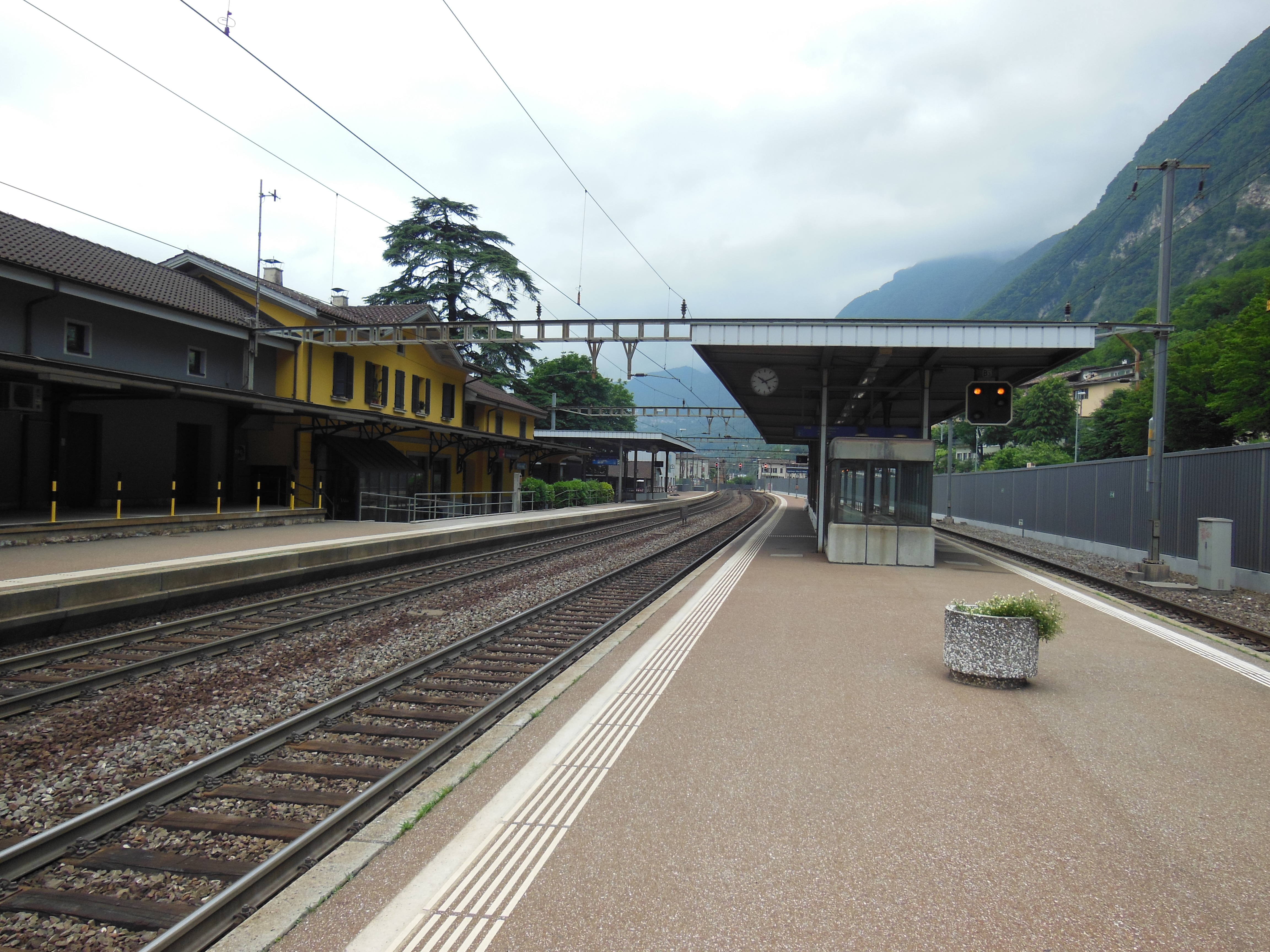 Capolago-Riva San Vitale railway station looking north. For more information, see Wikipedia article Capolago-Riva San Vitale railway station.